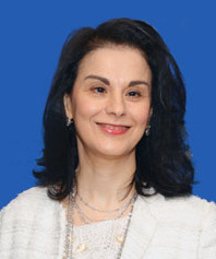 Photo of Co Founder of "Avenue Capital Group" Sonia Gardner